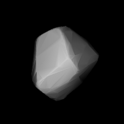 3D convex shape model of 1521 Seinäjoki, computed using light curve inversion techniques. J. Hanuš, J. Ďurech, M. Brož, B. D. Warner (June 2011). "A study of asteroid pole-latitude distribution based on an extended set of shape models derived by the lightcurve inversion method". Astronomy and Astrophysics 530: A134. ISSN 0004-6361. arXiv